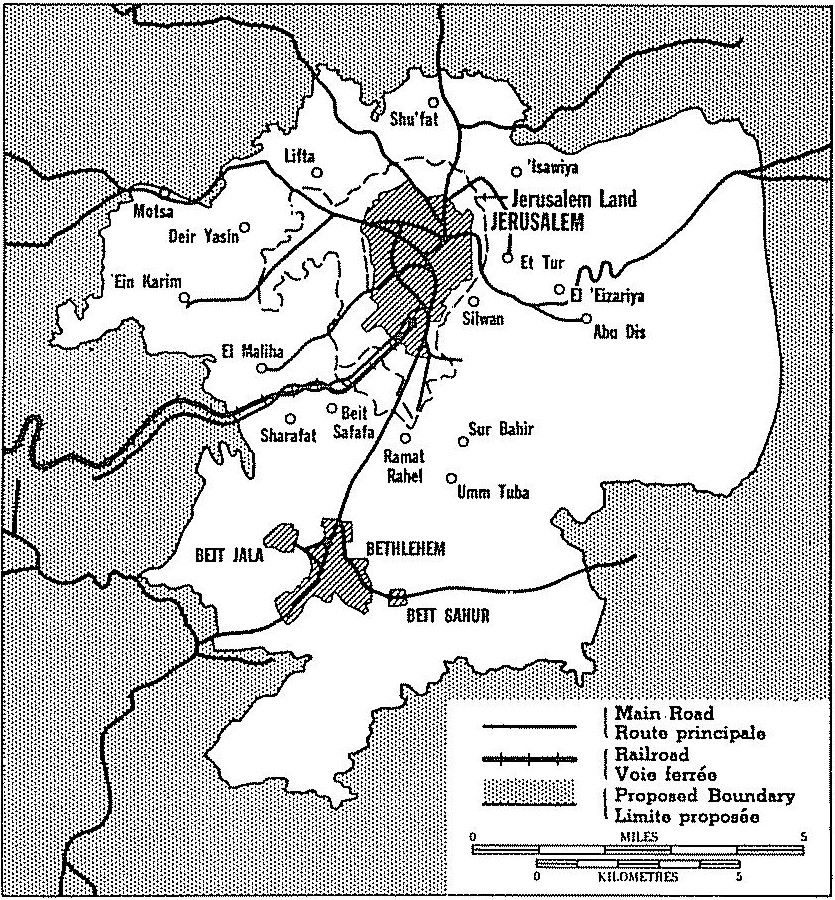 Corpus separatum as proposed in the United Nations Partition Plan for Palestine, 1947